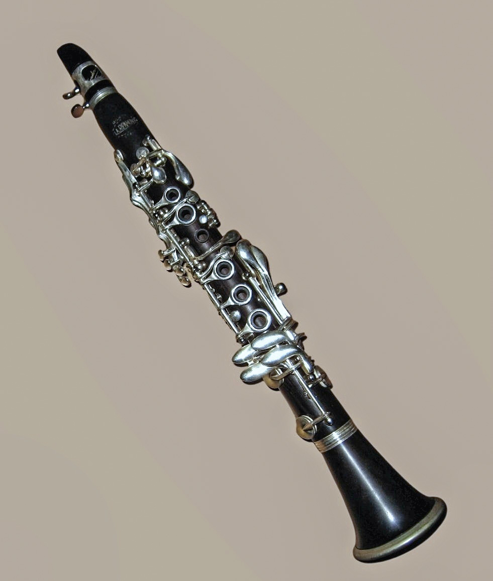 photograph of my Ripamonti A-flat clarinet